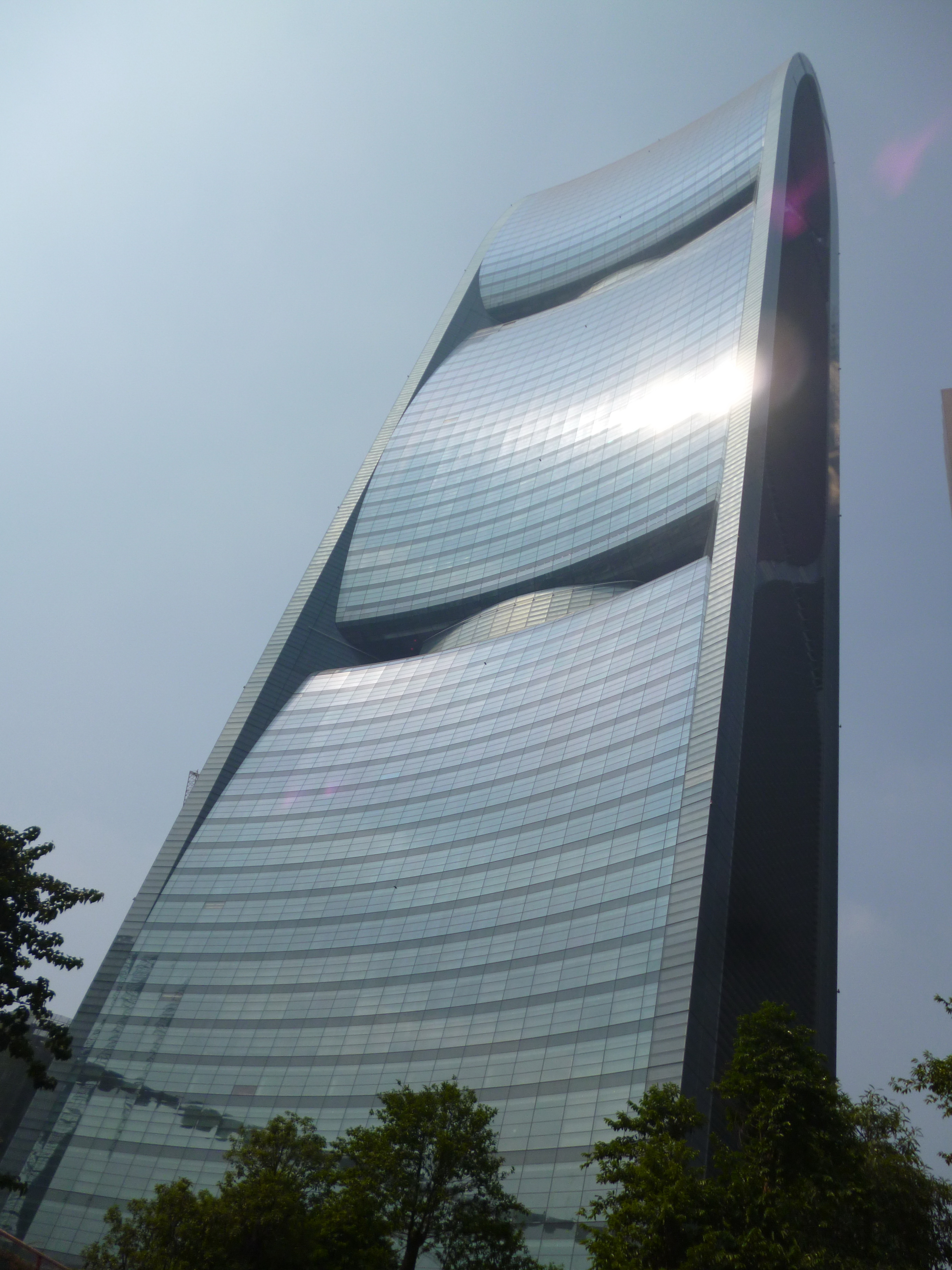 Pearl River Tower (Guangzhou, China)